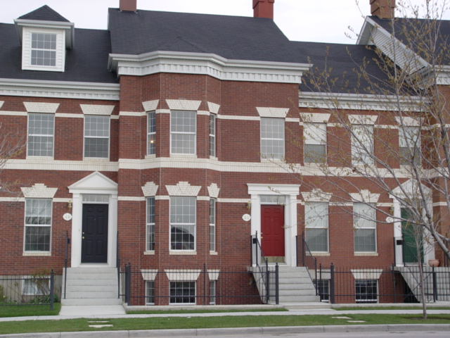 A Brownstone house with the basement windows showing at ground level.